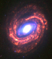 Image of the M58 galaxy in Infrared at 3.6 (blue), 5.8 (green) and 8.0 (red) µm. The image has been made by myself (Médéric Boquien) from the public image archive of the Spitzer Space Telescope (courtesy NASA/JPL-Caltech)